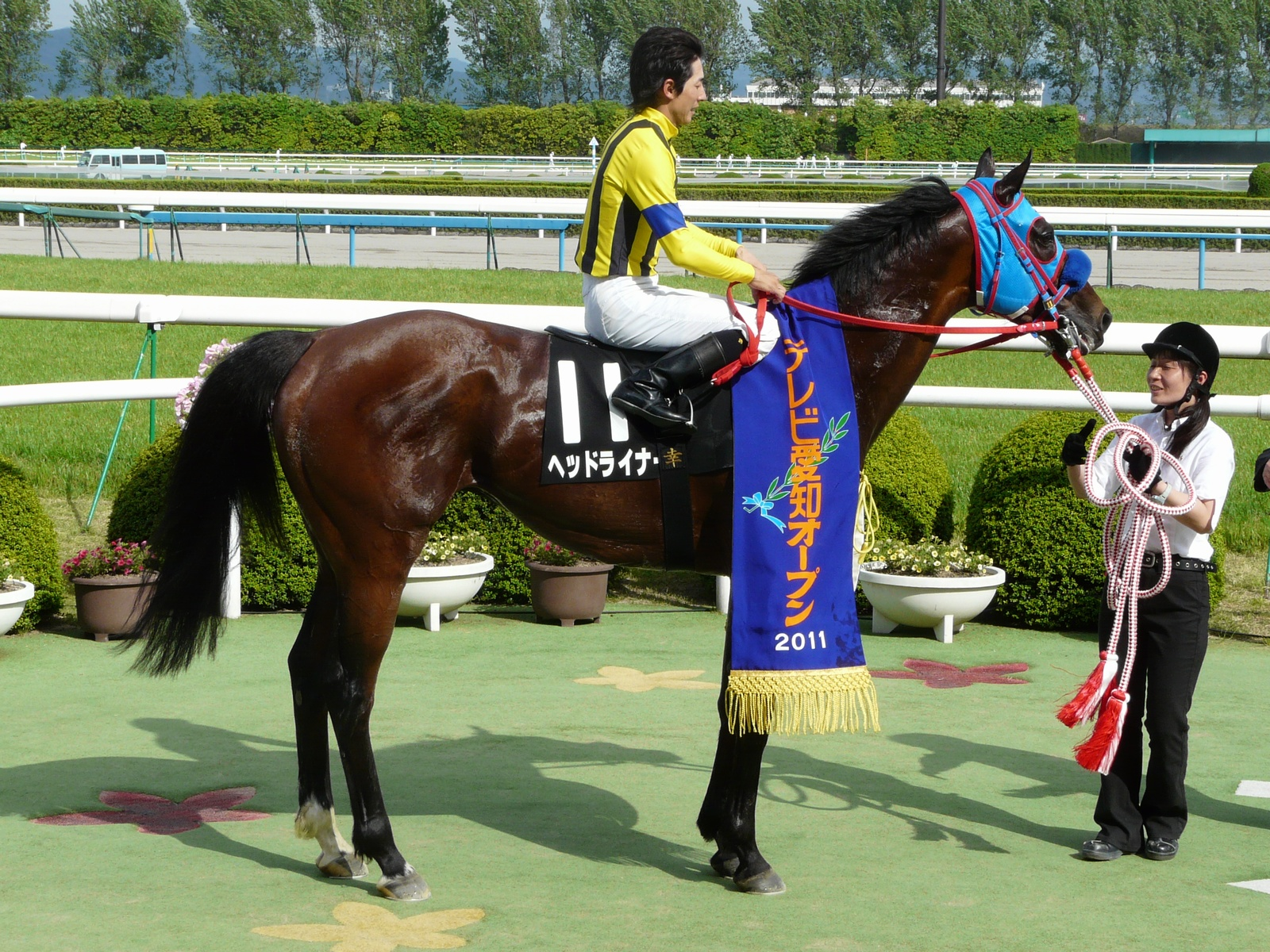 Headliner20110521(2)